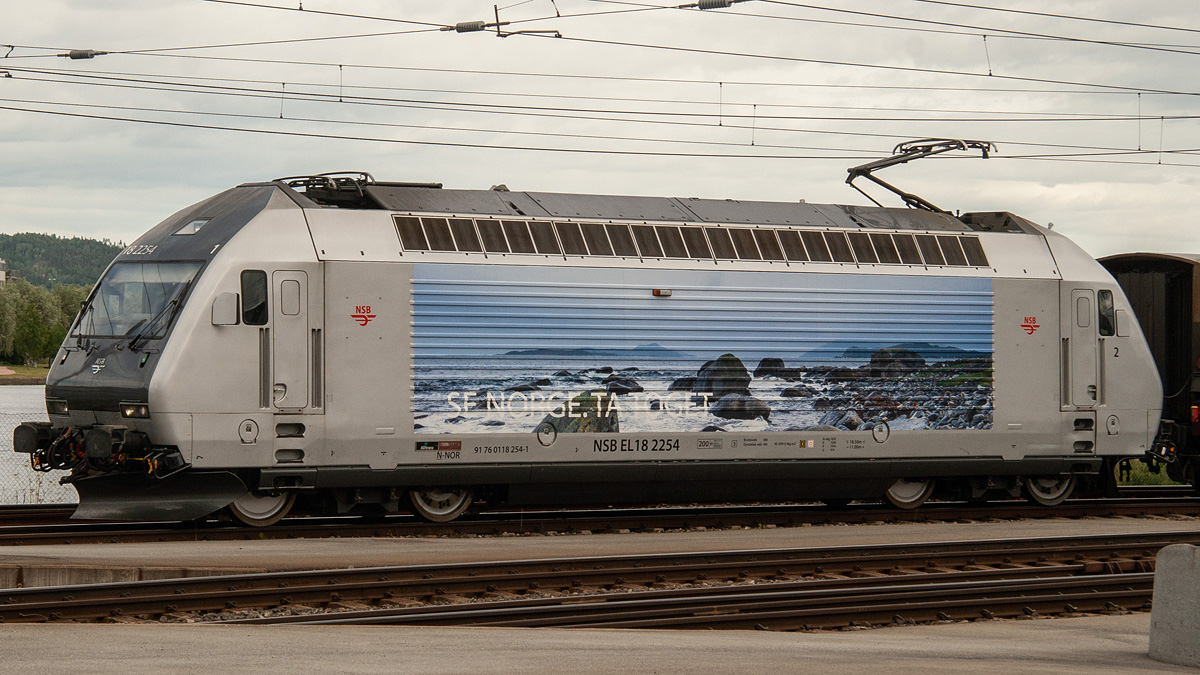 NSB (Norske tog) El 18.2254 in Drammen.